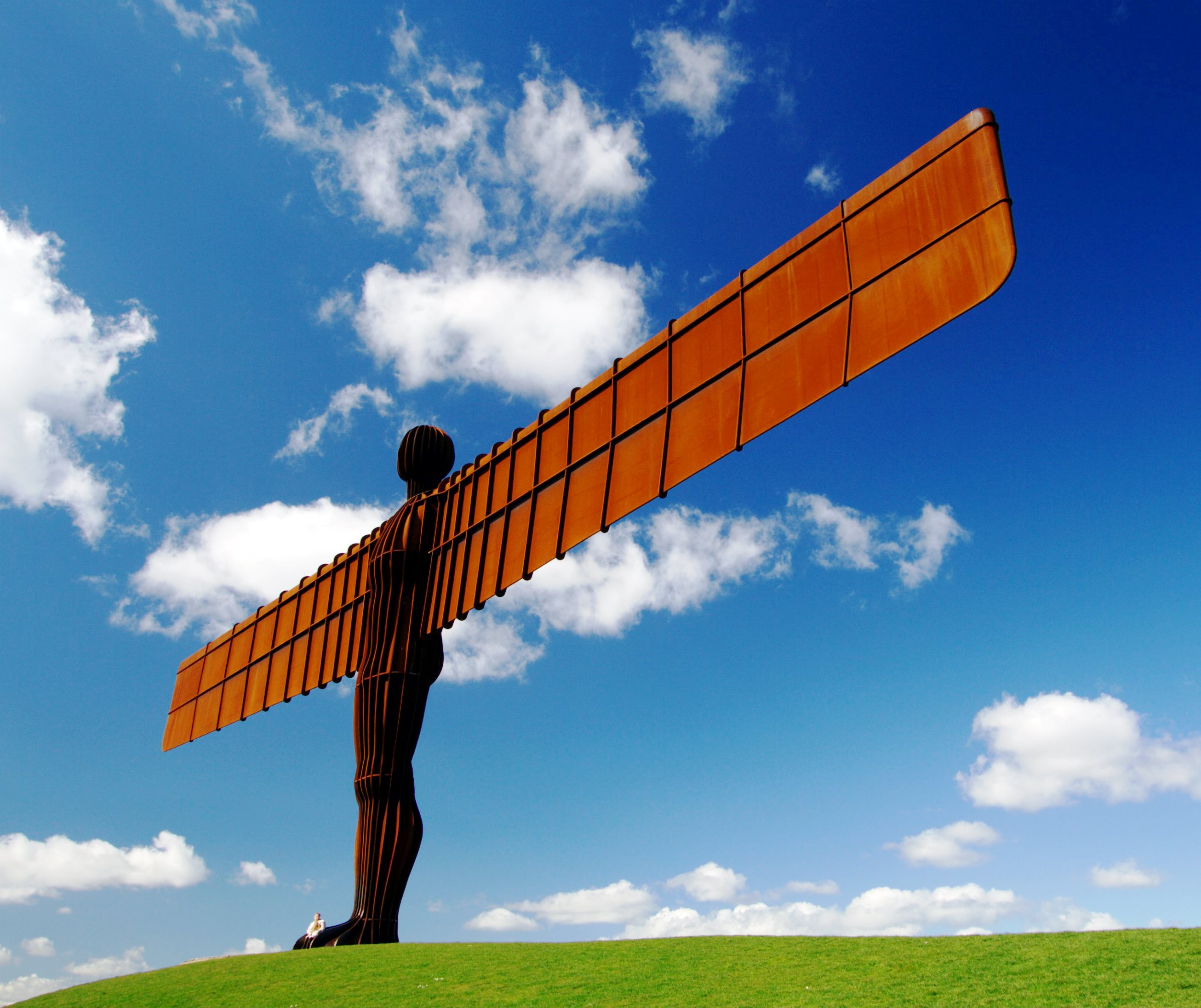 El Angel of the North near Gateshead, Tyne & Wear, England.